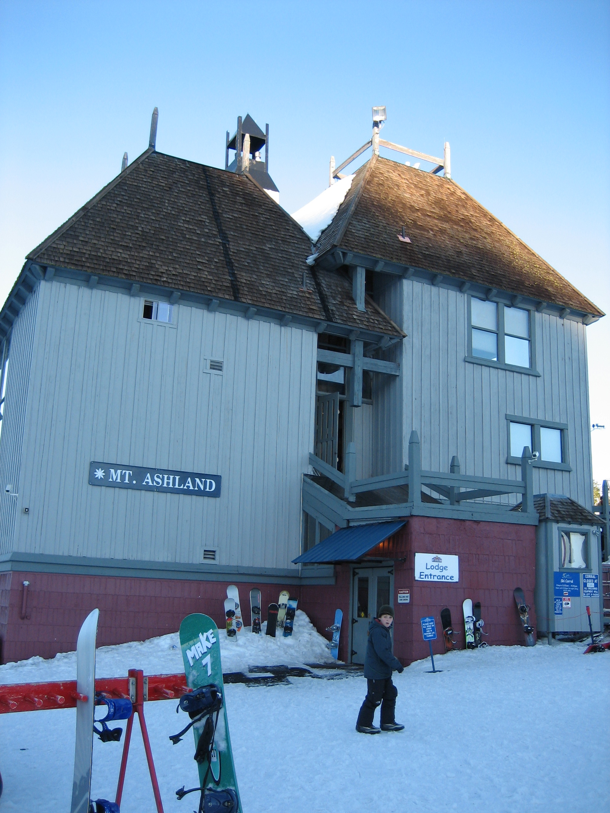 Photo February 11, 2006 by David Schor. All rights reversed [sic].